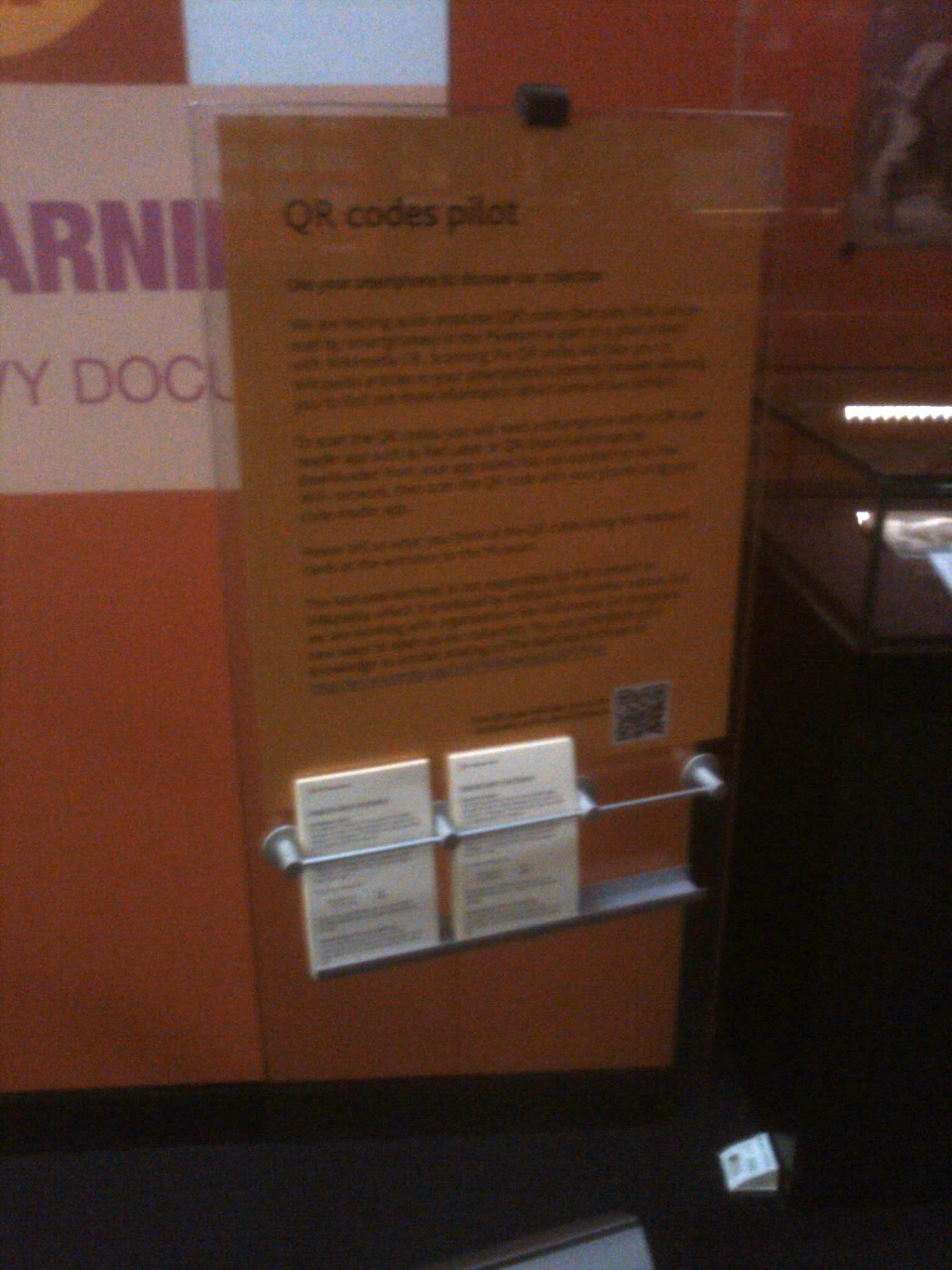 QRpedia codes at The UK National Archives.